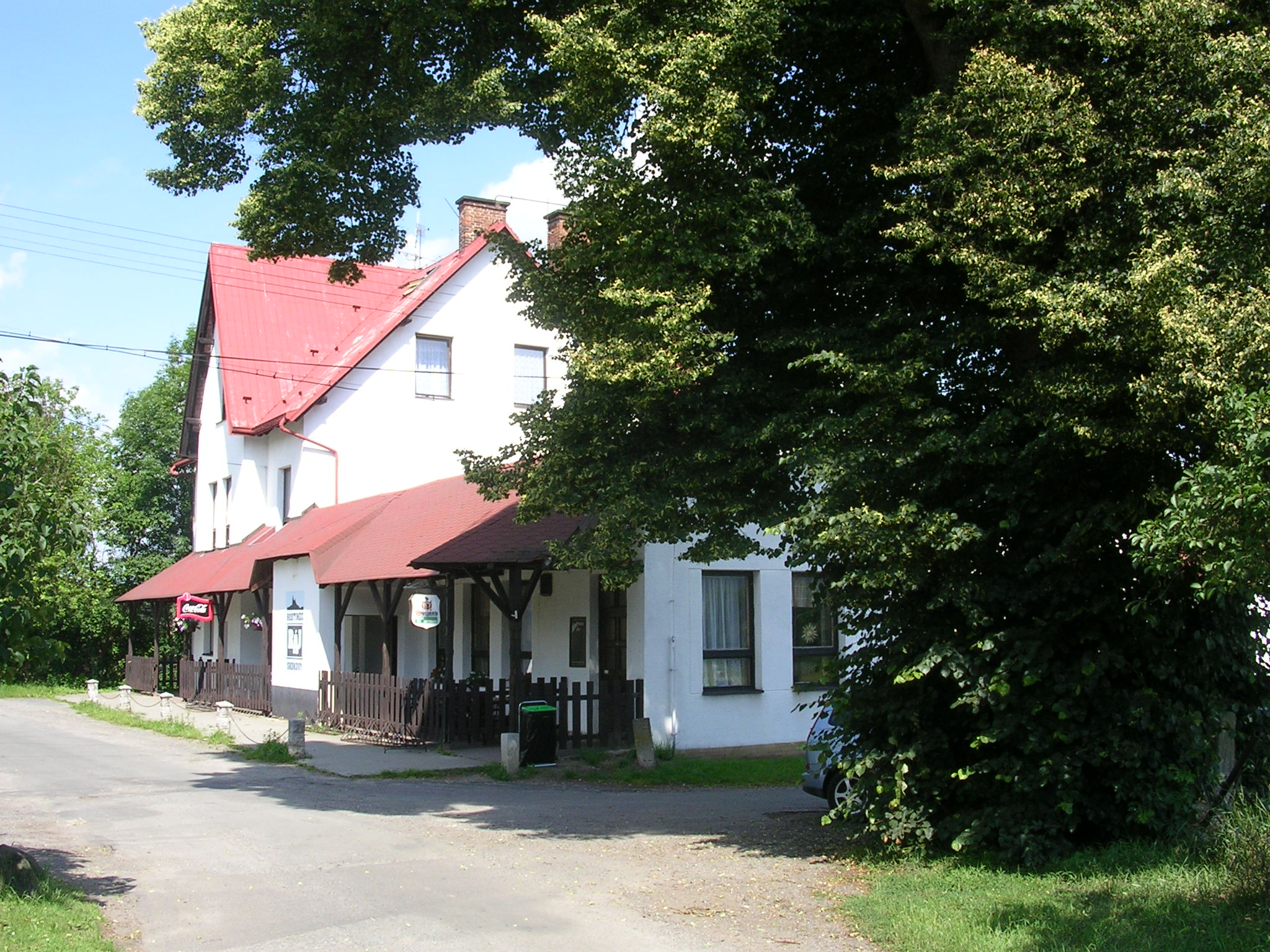 Žďár-Skokovy, Mladá Boleslav District, Central Bohemian Region, the Czech Republic.